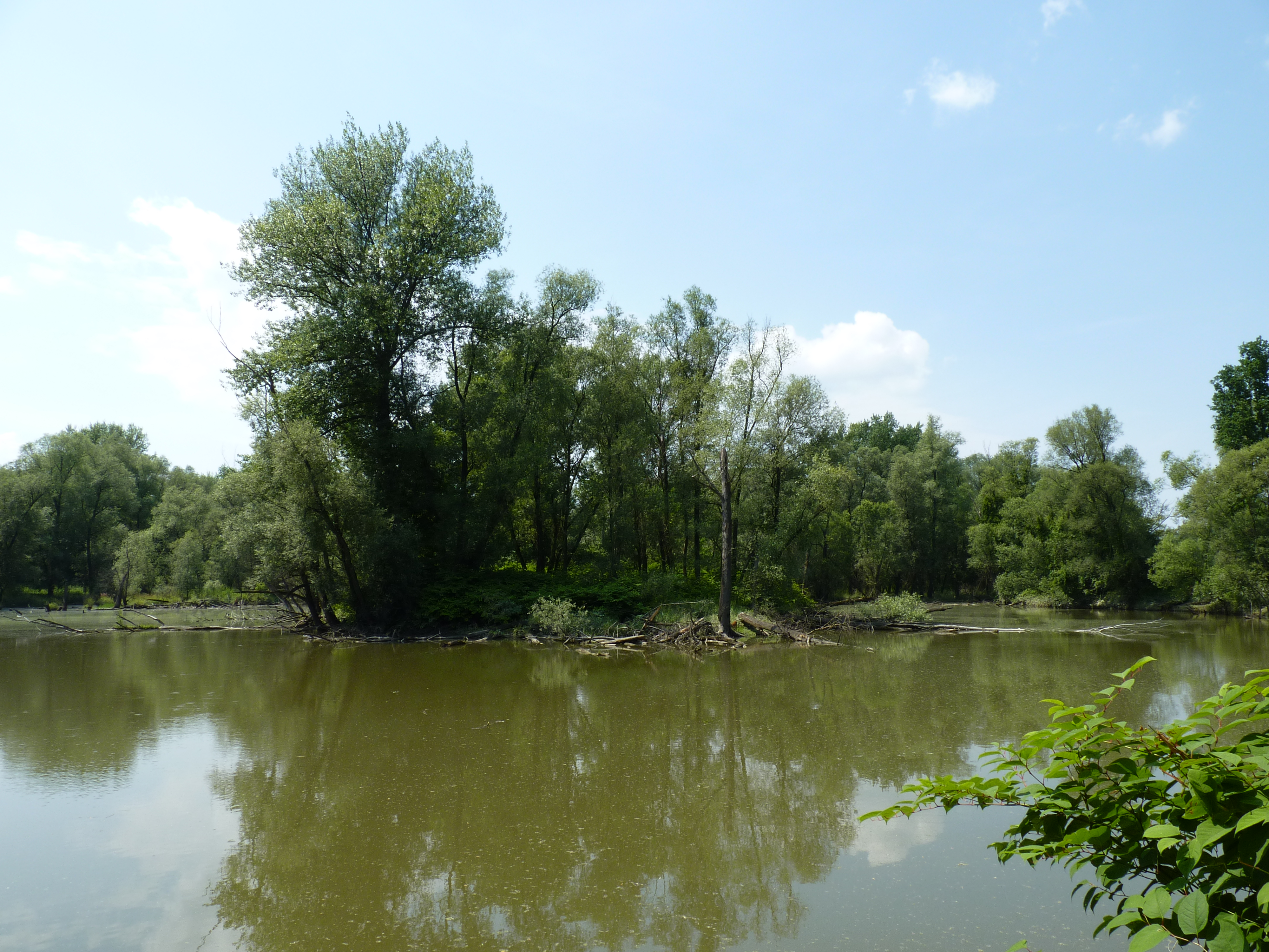 Natural monument Hraniční meandry Odry. Karviná District, Moravian-Silesian Region, Czech Republic